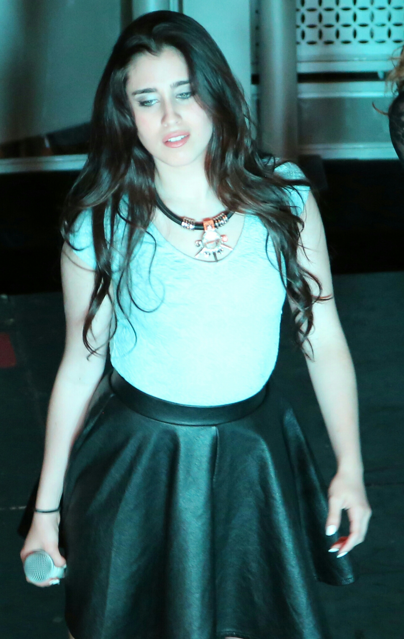 Lauren Jauregui in 2013